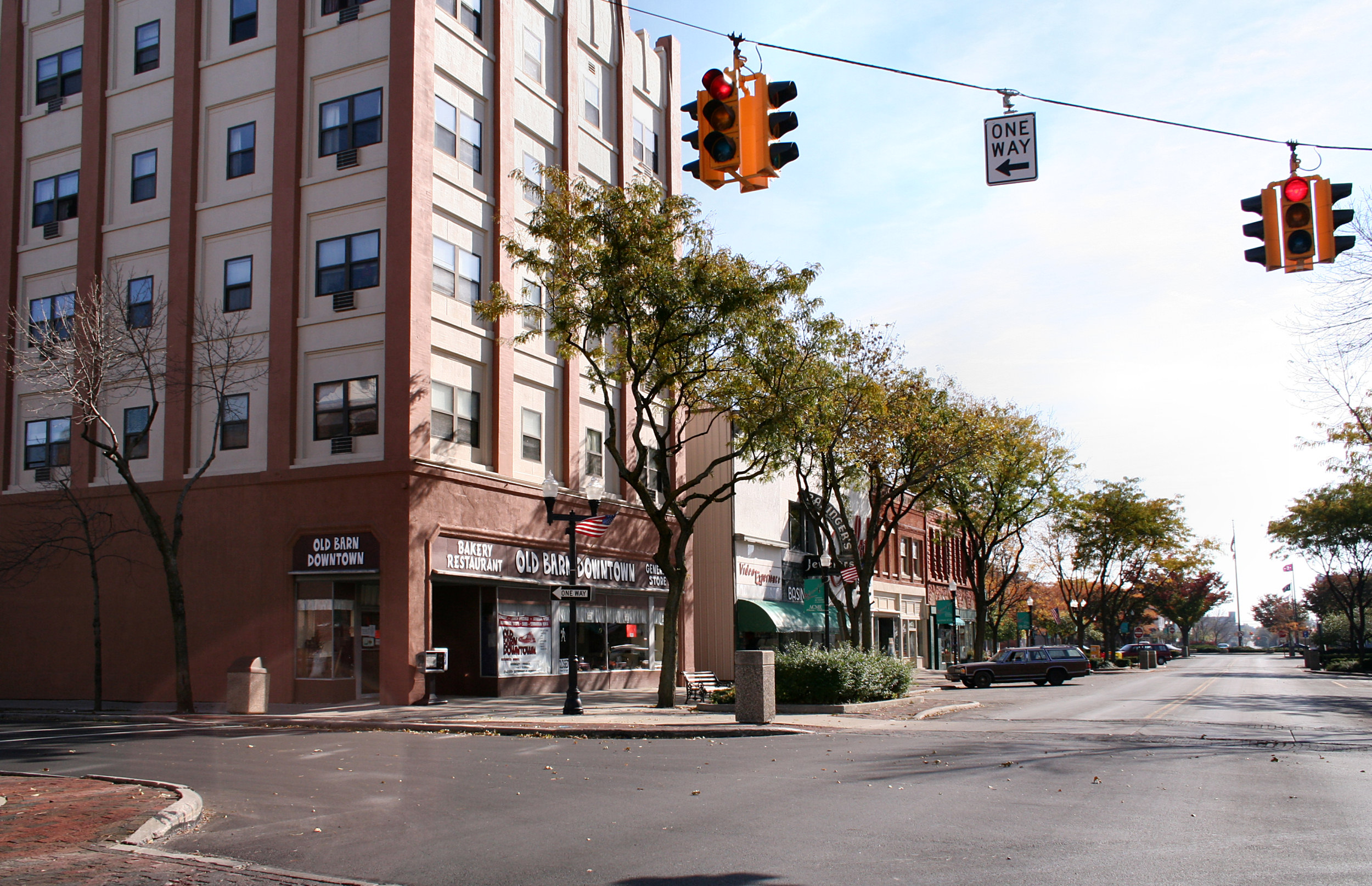 Lima, Ohio downtown. Photo shot by Derek Jensen (Tysto), 2005-October-30